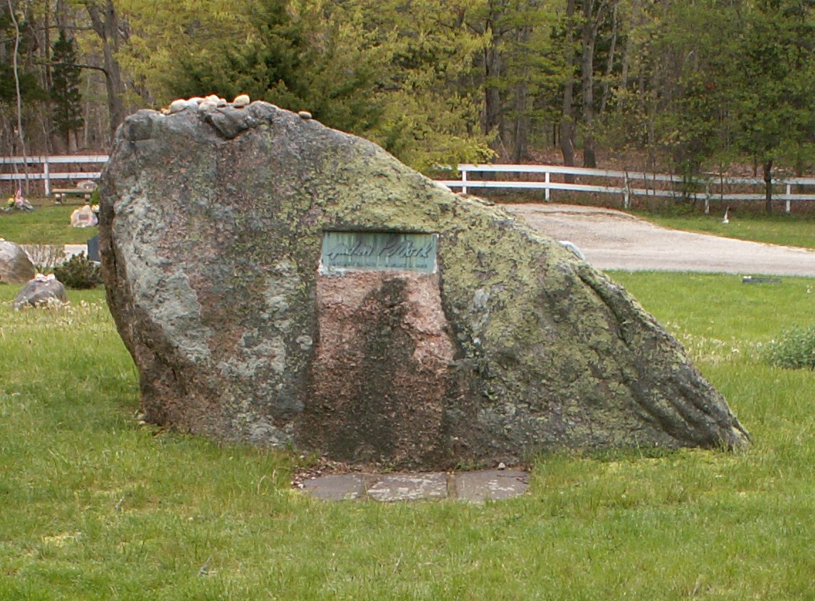 Tomb of Jackson Pollock (1912-1956) was an influential American painter and a major figure in the abstract expressionist movement